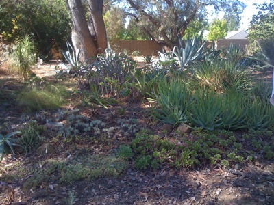 Ruth Bancroft Garden — a specialized botanical garden, in Walnut Creek, East Bay region, northern California.